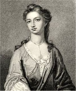 Cropped and straightened version of Commons file File:Arabella Fermor.jpg, 1807 engraving of Arabella Fermor. File details as shown in Commons. Scanned from an antique engraving, 7-1/2 x 6 inches. Engraved by Charles Knight Drawn by Gardner after Sir Peter Lely. Published by Cadel l & Davis 1807 Arabella Fermor was the daughter of Henry Fermor Esq. of Tusmore in Oxfordshire. The fame of her beauty and her charms was celebrated both by poets and painters, for she was the belle of London society in the early years of the 18th century. Alexander Pope wrote his poem, The Rape of the Lock, about a scandalous incident between her and Lord Petre, much to Arabella’s dismay.